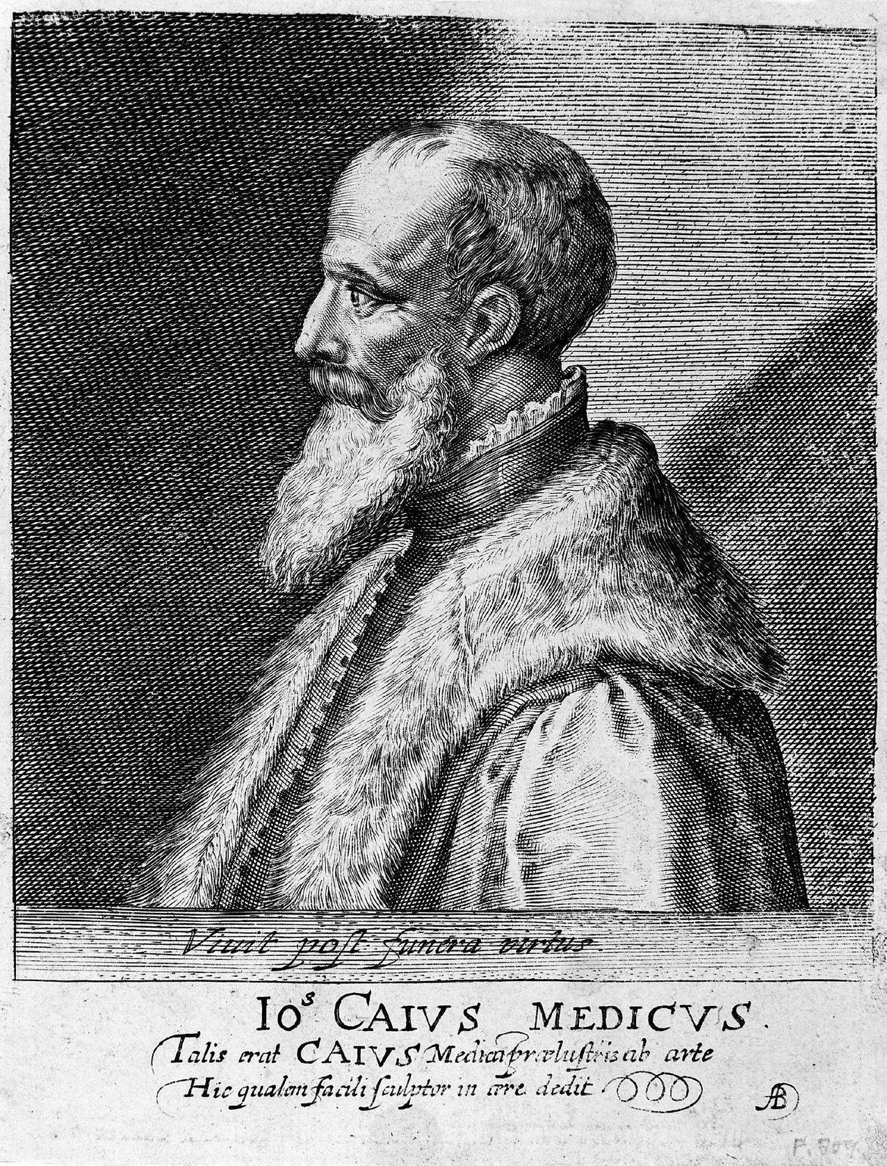 Portrait of John Caius, 16thC. Half-length to left in profile, with epitaph, and with Latin verses by A[rnold] B[uchtel]. Iconographic Collections Keywords: Willem van de Passe; Magdalena van de Passe; John Caius